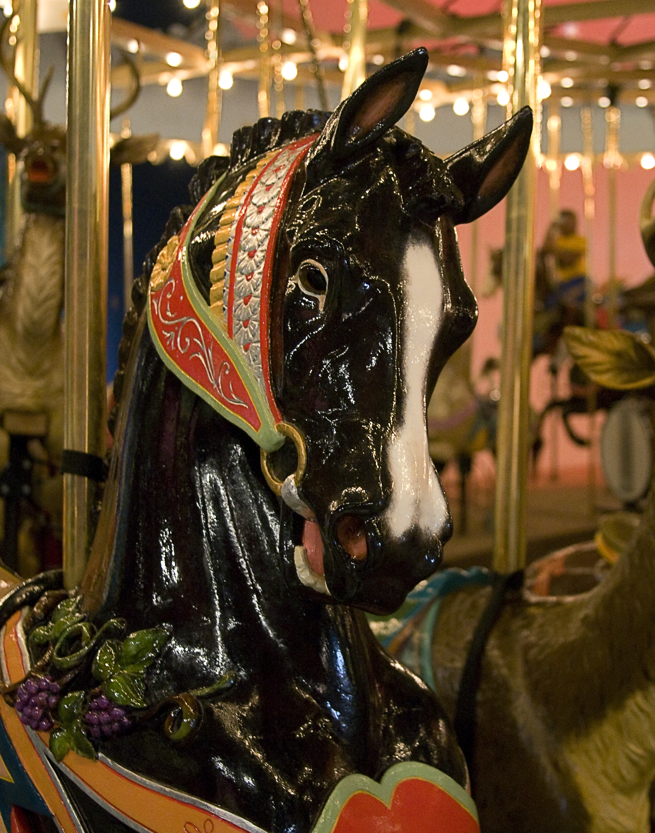 Carved wooden head of a carousel horse in The Children's Museum of Indianapolis.